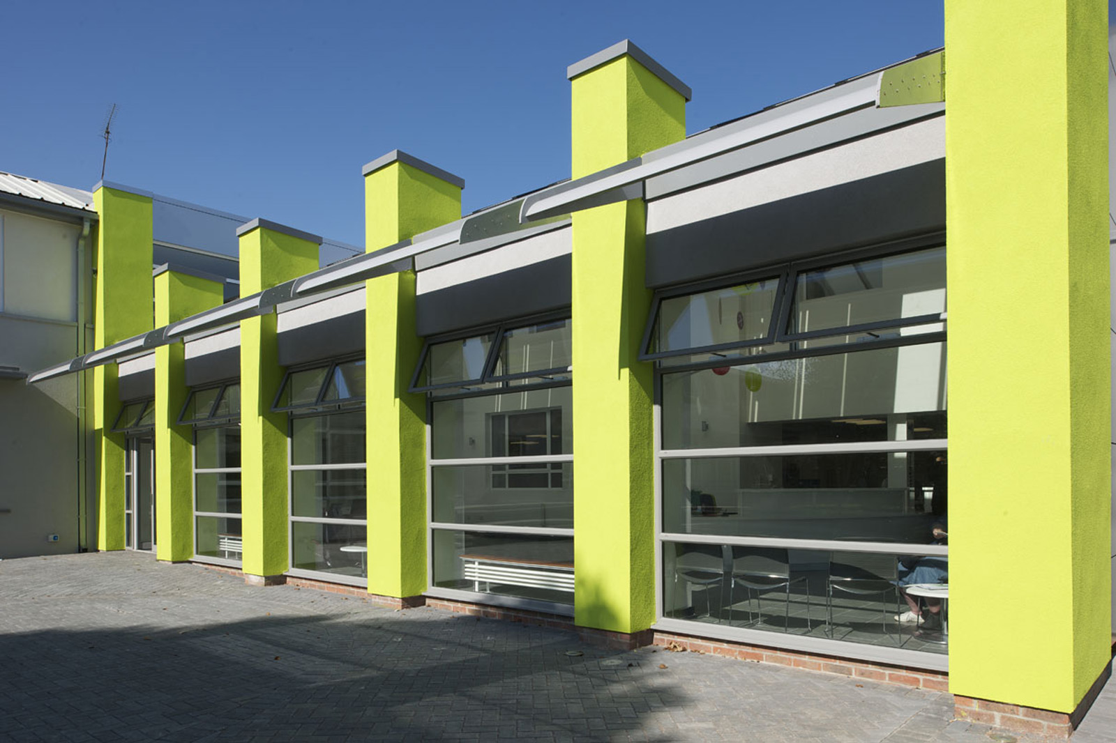 The entrance to Totton College